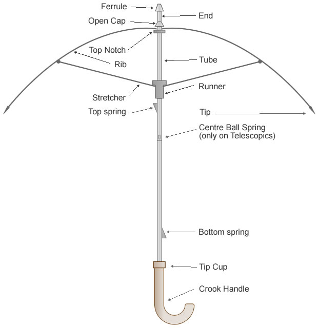 Parts of an umbrella